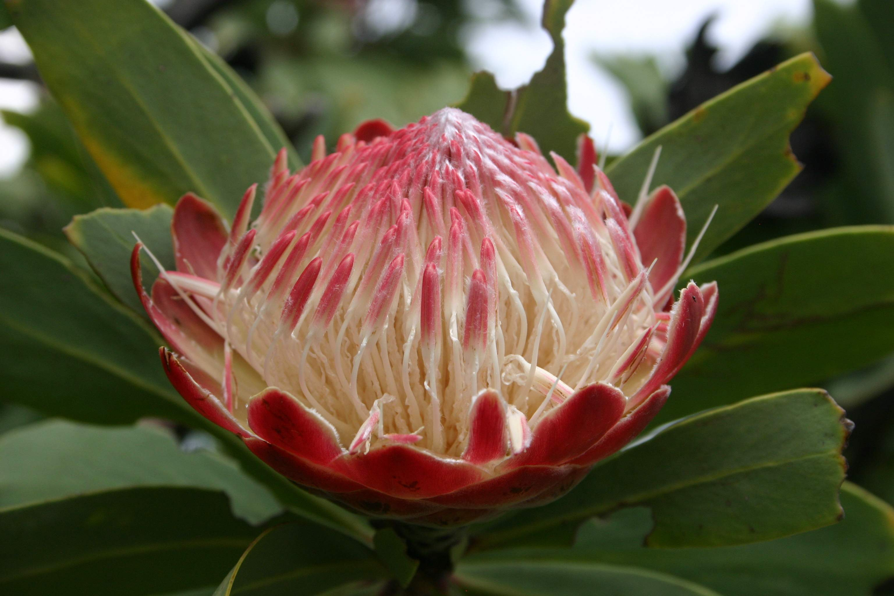 Protea caffra flowerhead, Mabela Randjies nr Sparkling Waters, Marikana district, Magaliesberg, South Africa